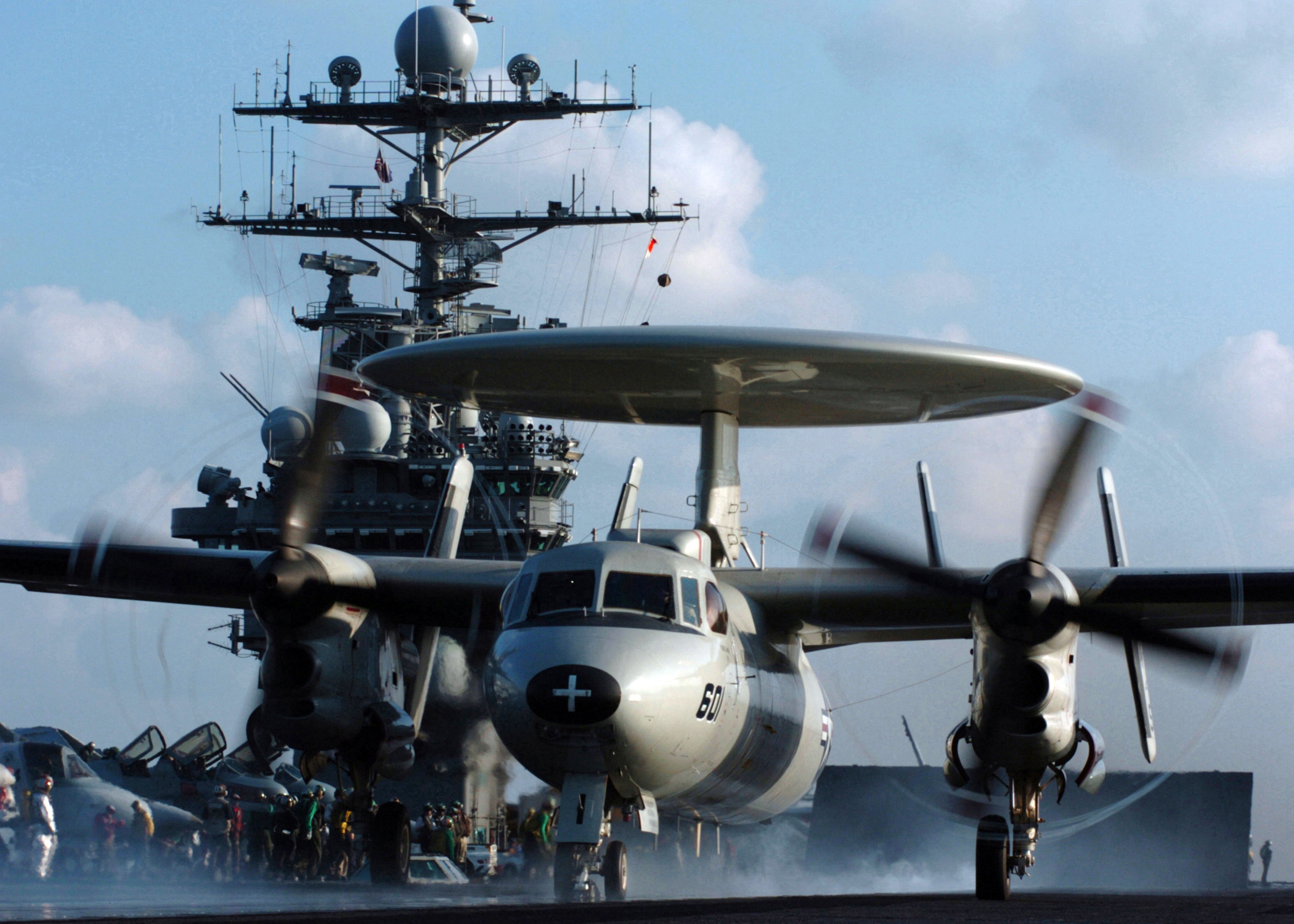 Persian Gulf (Dec. 10, 2004) - An E-2C Hawkeye assigned to the "Seahawks" of Carrier Airborne Early Warning Squadron One Two Six (VAW-126), launches from the flight deck of the Nimitz-class aircraft carrier USS Harry S. Truman (CVN 75). Currently aircraft from Carrier Air Wing Three (CVW-3) embarked aboard Truman are providing close air support and conducting intelligence, surveillance and reconnaissance missions in ongoing operations over Iraq. Truman's Carrier Strike Group Ten (CSG-10) and embarked CVW-3 are currently on a regularly scheduled deployment in support of the Global War on Terrorism. U.S. Navy photo by Photographer’s Mate Airman Ryan O'Connor (RELEASED)